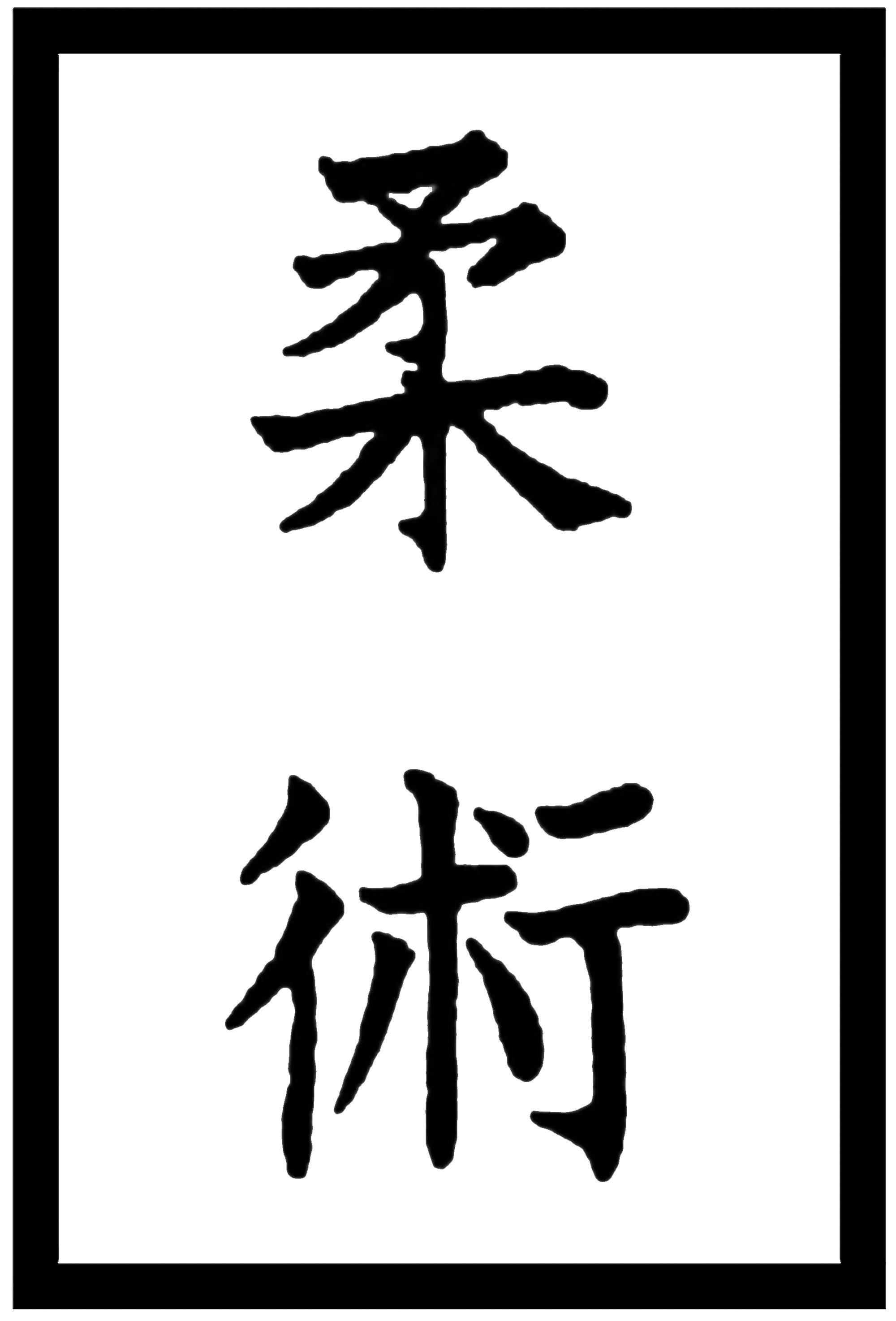 sino-japanese Kanji Jiu Jitsu 柔術 Jūjutsu